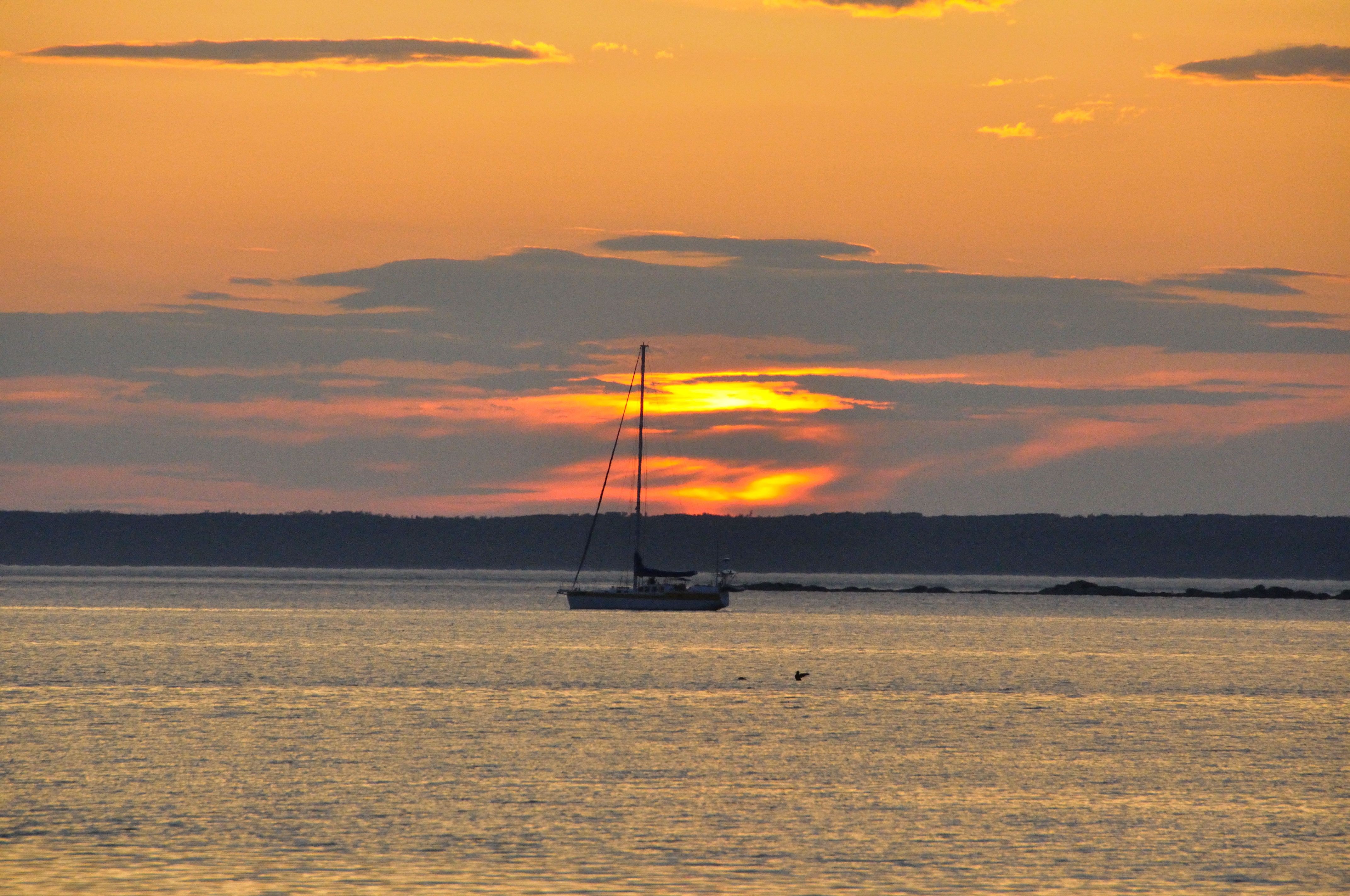 Sunset at the Bic National Park, located on the shore of the Saint Lawrence River near the villages of Le Bic and Saint-Fabien, southwest of the city of Rimouski, in the Bas-Saint-Laurent region of Quebec (Canada).